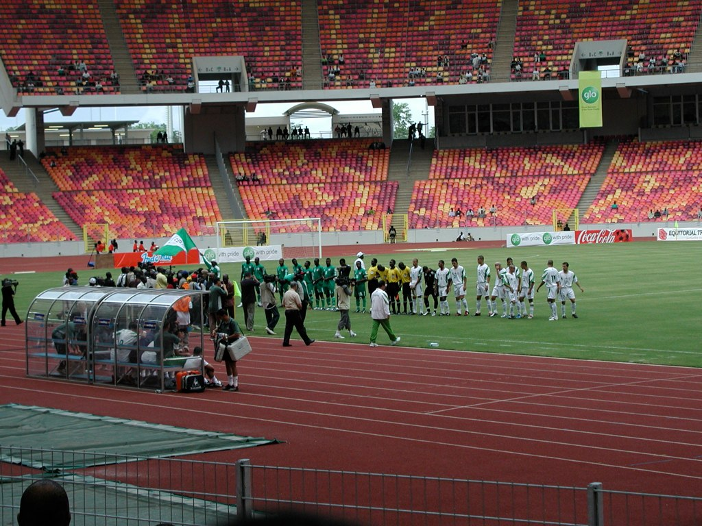 Abuja Stadium, match between Nigeria and Algeria on 4th July 2004